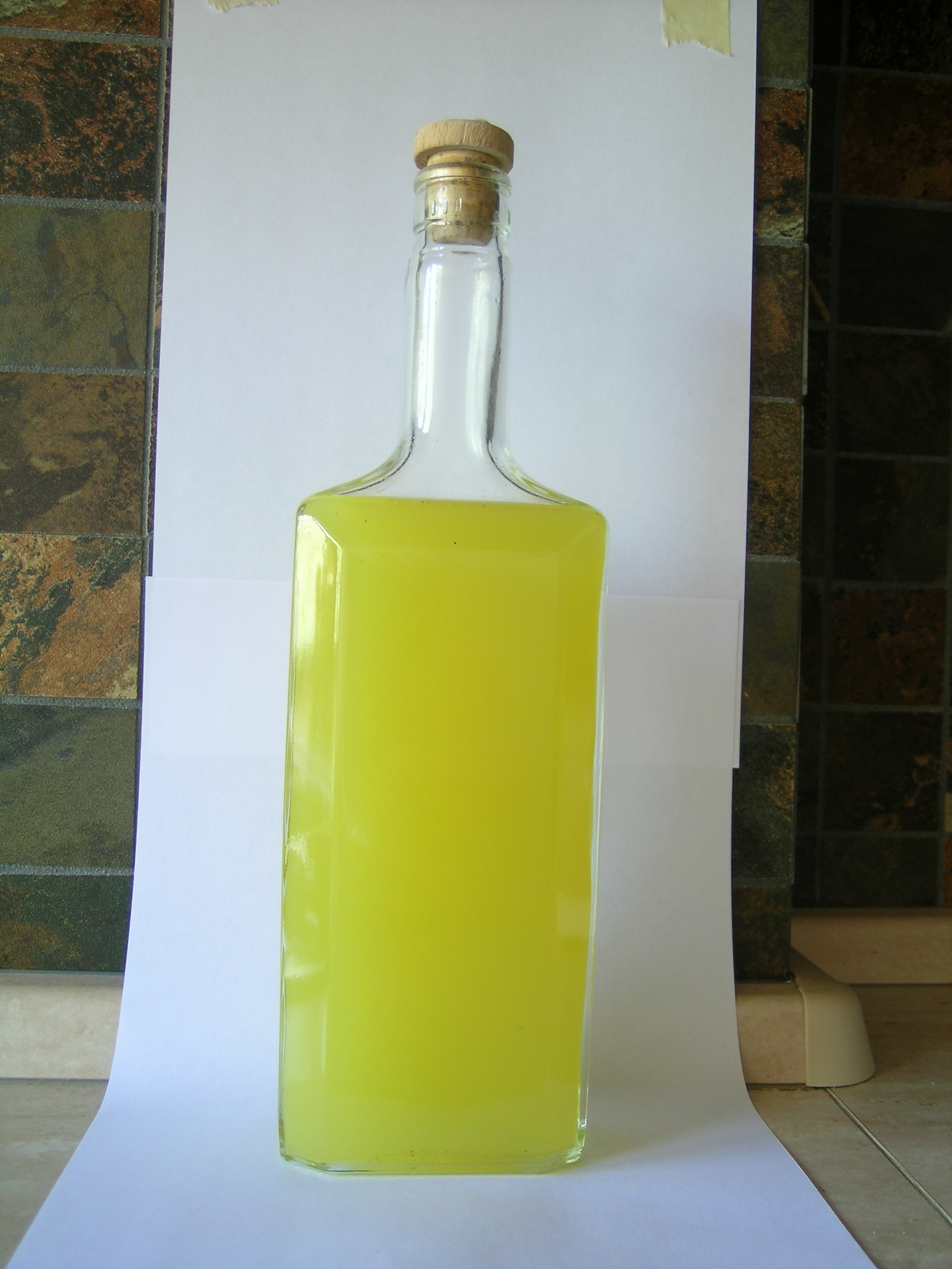 a bottle of home-made limoncello